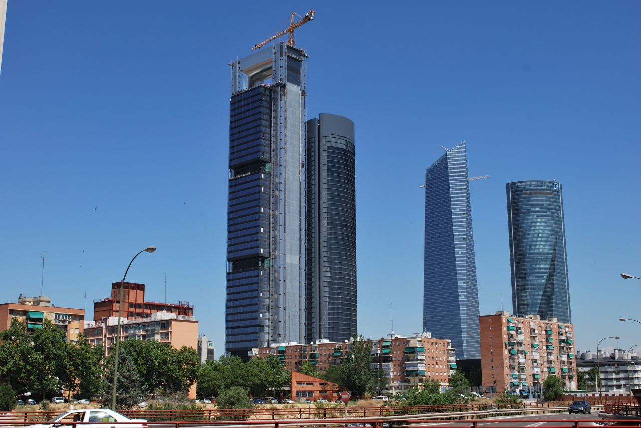 View of Cuatro Torres Business Area (CTBA) in Madrid (Spain).